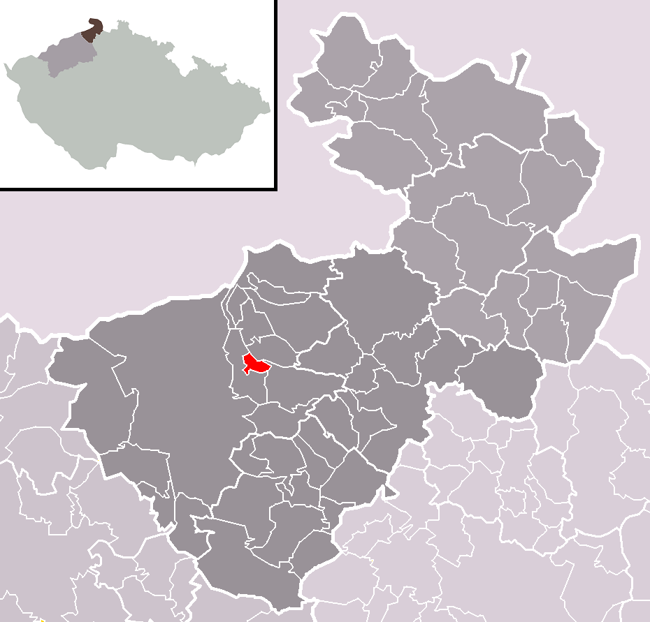 Location of Kámen municipality within Děčín District and administrative area of Děčín as a Municipality with Extended Competence.